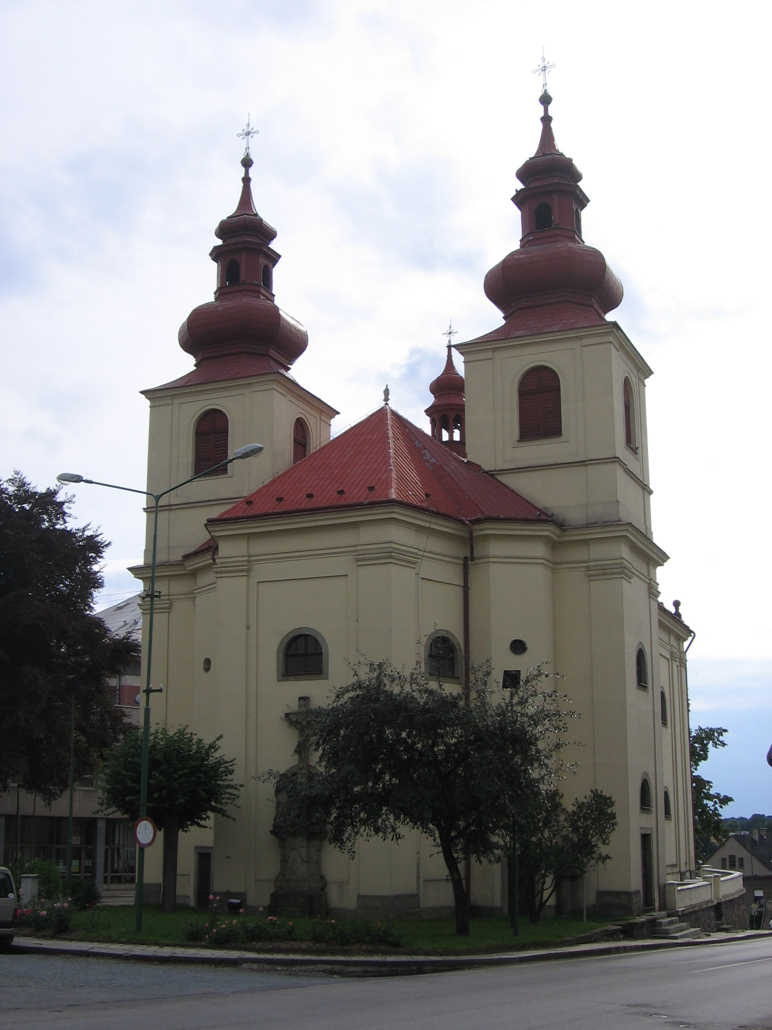 St Prokop's Church in Vamberk (Czech Republic)